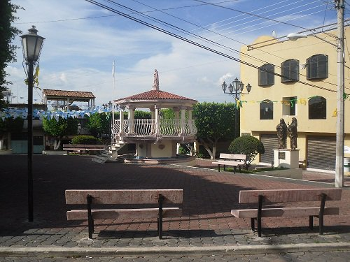 Square and kiosk in the Cañada de Ramírez, in the state Michoacán of Mexico.